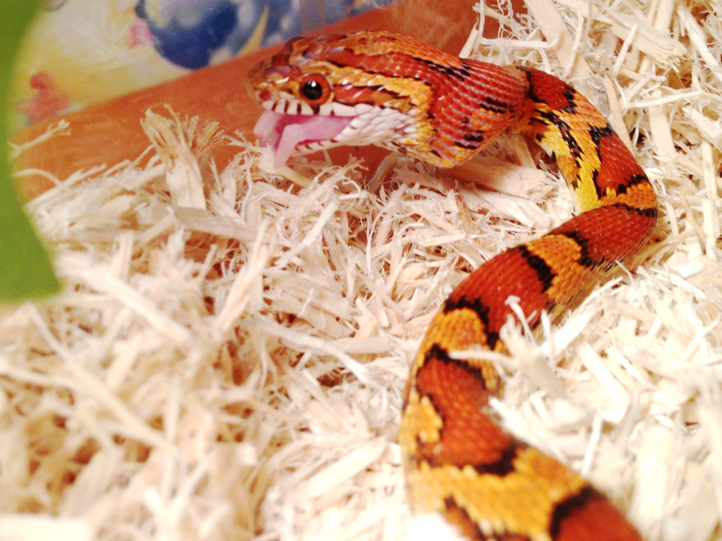 This six month old corn snake is eating a "pinkie" (a baby mouse).